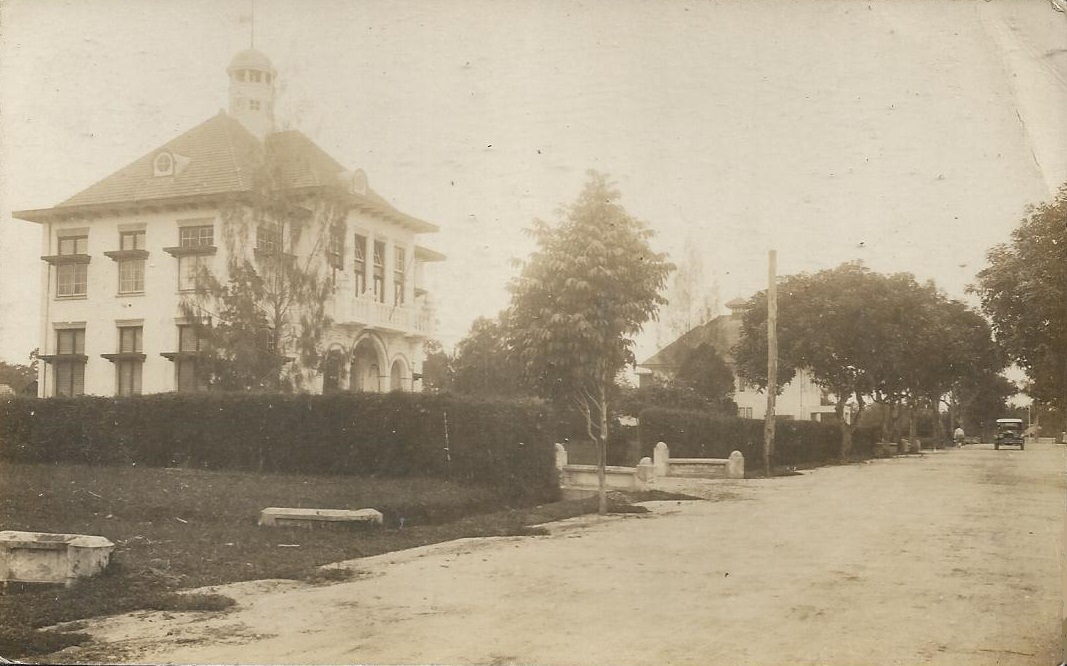 A street of Port Edward, Weihaiwei, with villas. Real photo postcard from c. 1930.